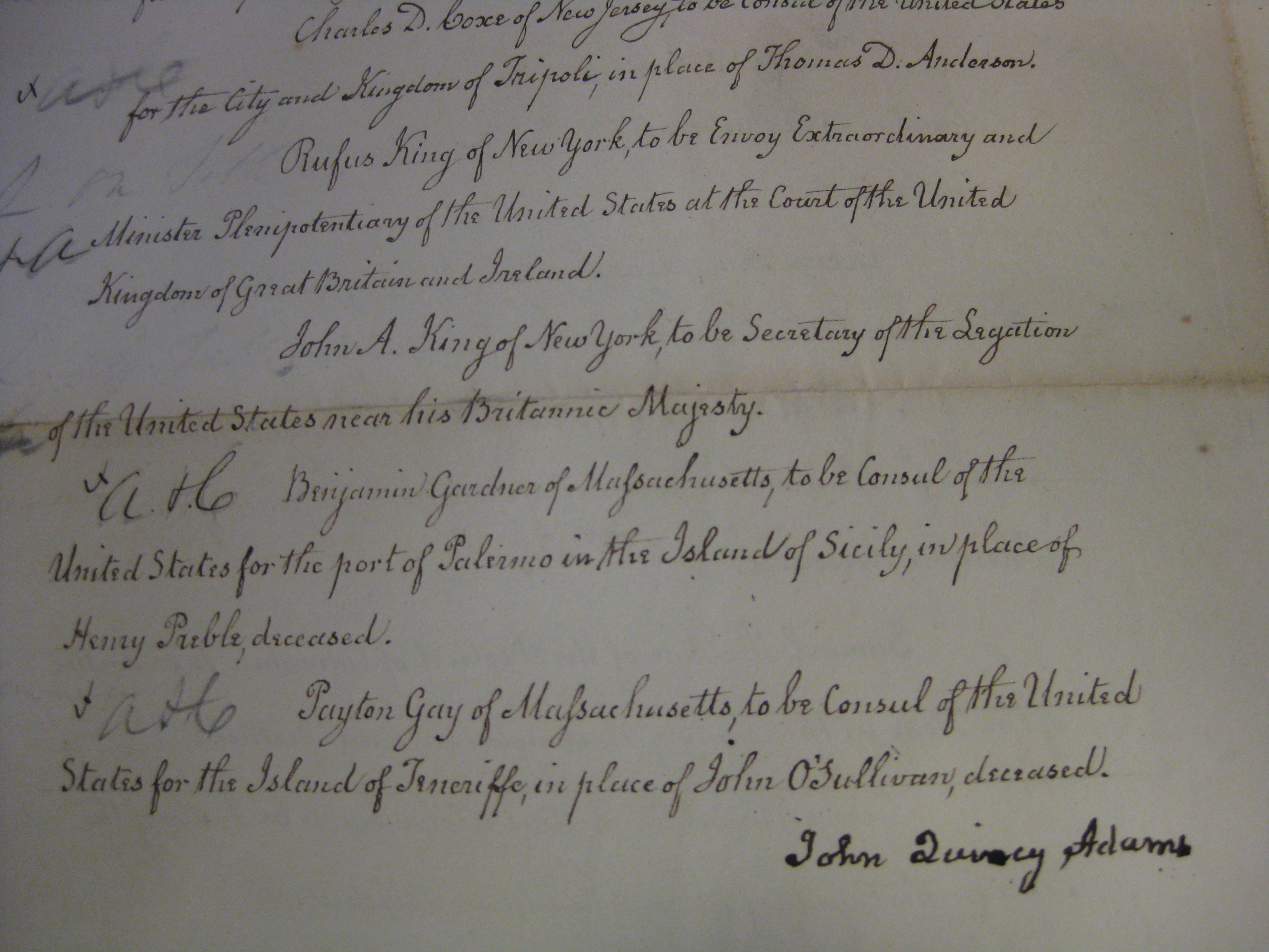 John Quincy Adams's nomination of Rufus King to serve as Minister to the United Kingdom. Courtesy of the National Archives and Records Administration.